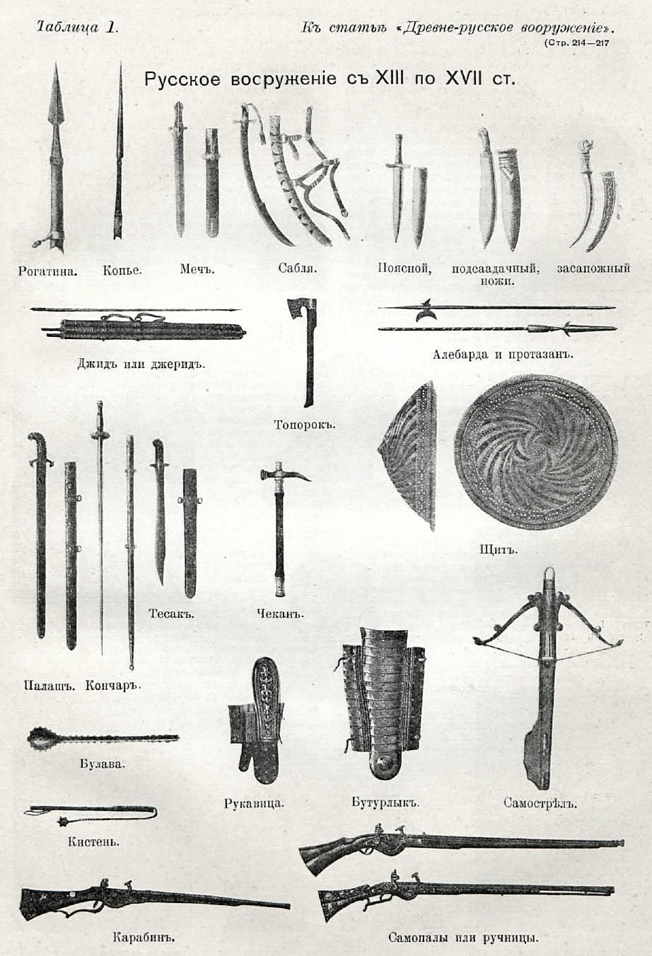 This image, titled "Russian weapons from the 13th to 17th centuries", was used to illustrate the article "Ancient Russian Armament" published in the ninth volume of the Military Encyclopedia, which was published by the book publishing house ID Sytin in 1912 in the capital of the Russian Empire, St. Petersburg.